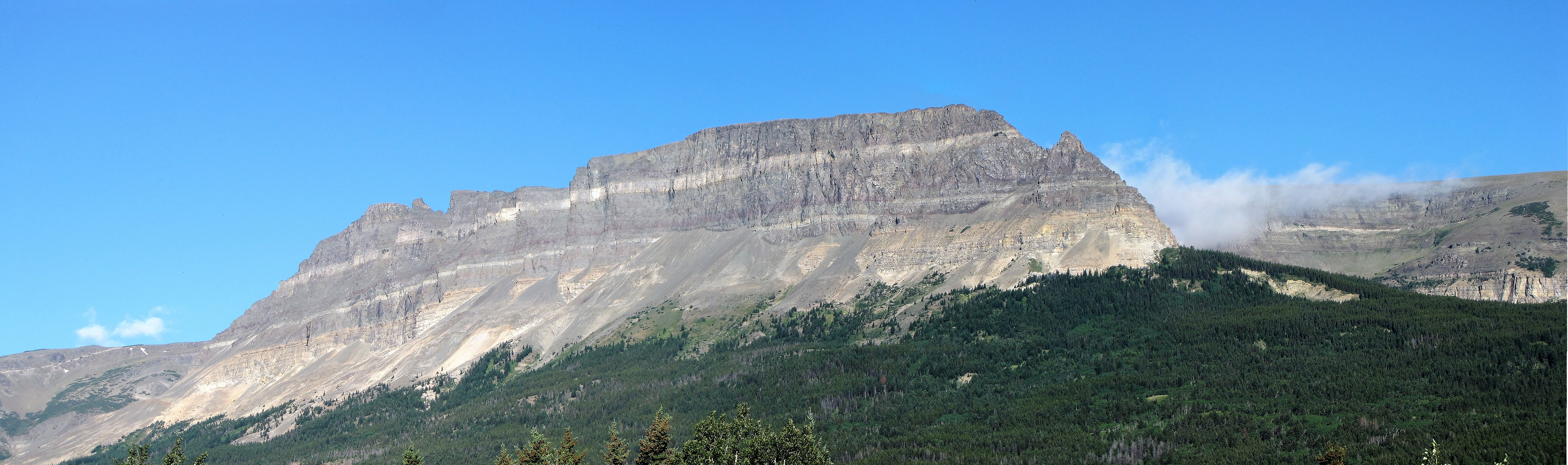 Entire southeast view of Singleshot Mountain in Glacier National Park, Montana